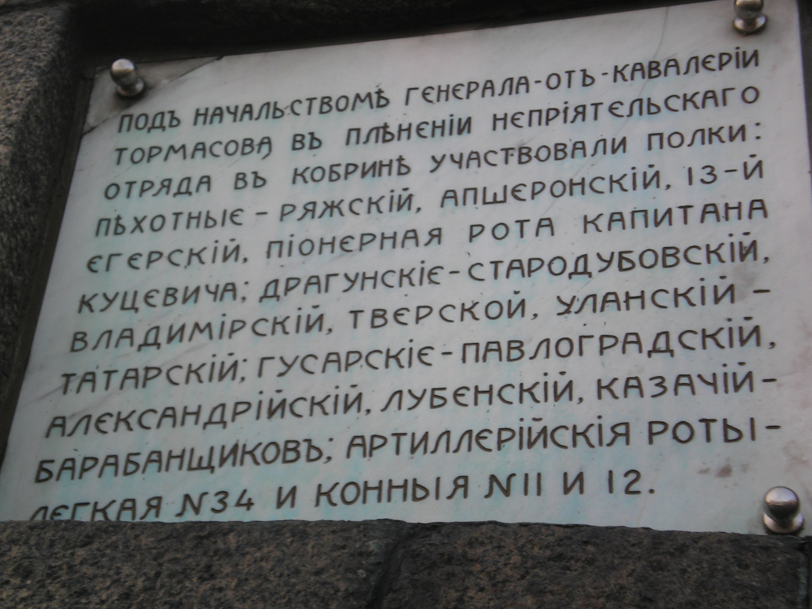 Monument of the victory of Russian army in the Kobrin Battle (1812)